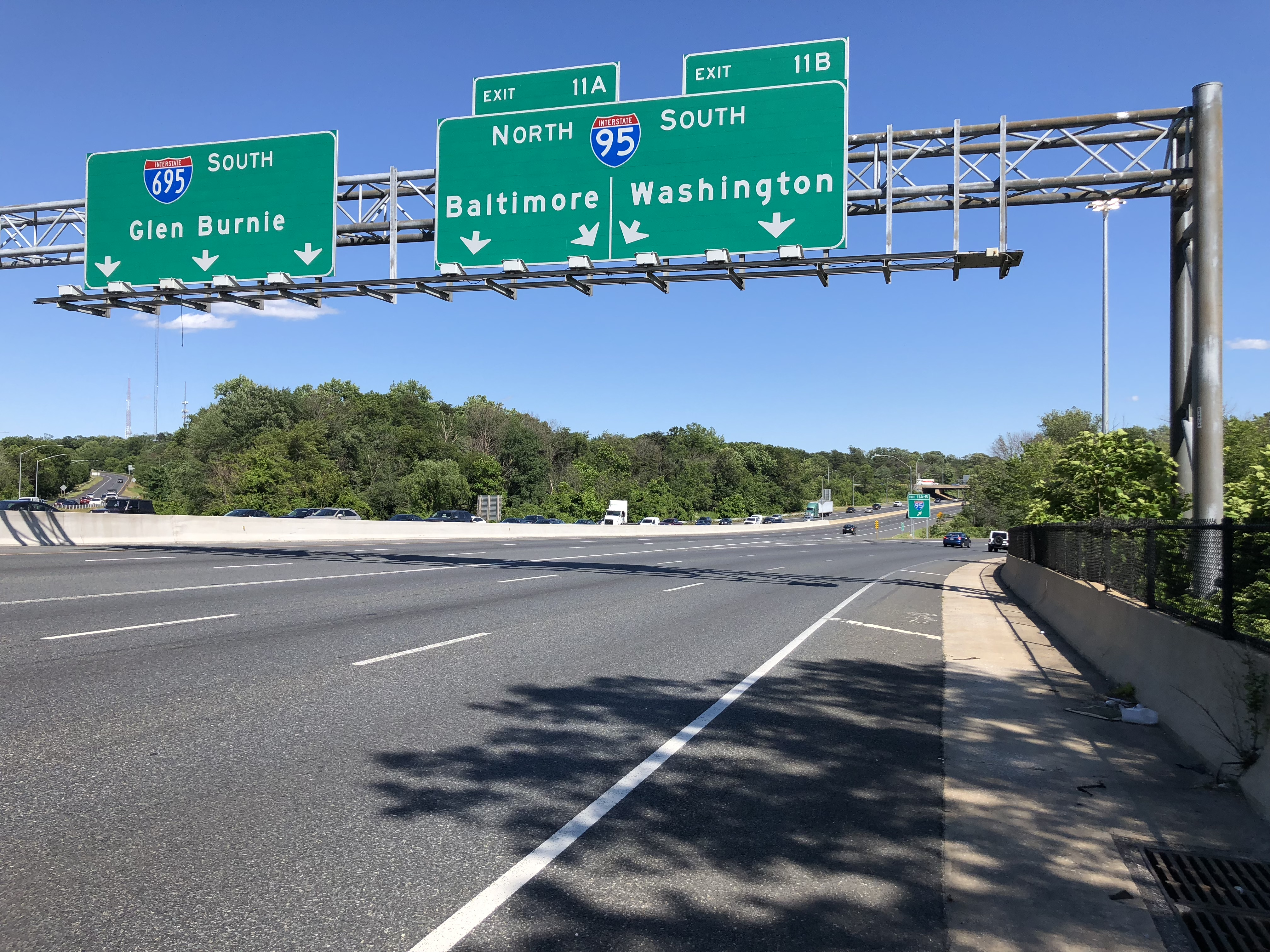 View southeast along the Outer Loop of the Baltimore Beltway (Interstate 695) at Exit 11B-A (Interstate 95, Washington, Baltimore) in Arbutus, Baltimore County, Maryland